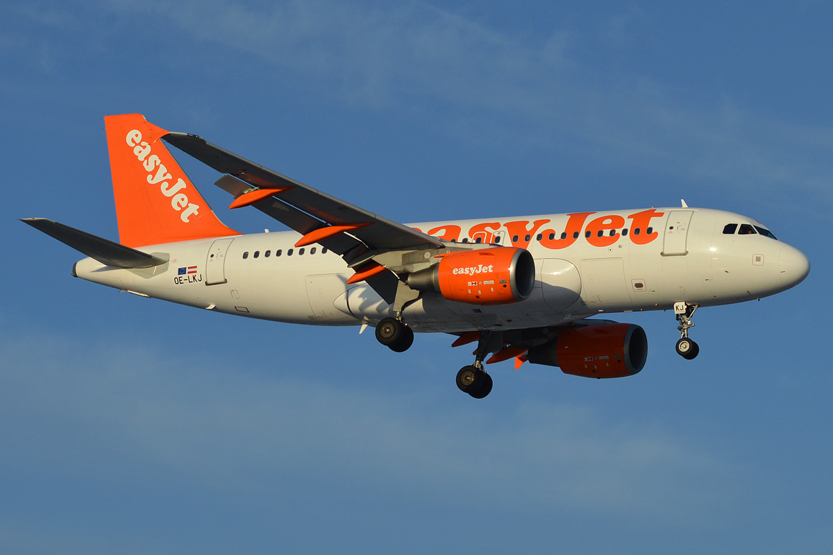 EasyJet Europe, OE-LKJ, Airbus A319-111